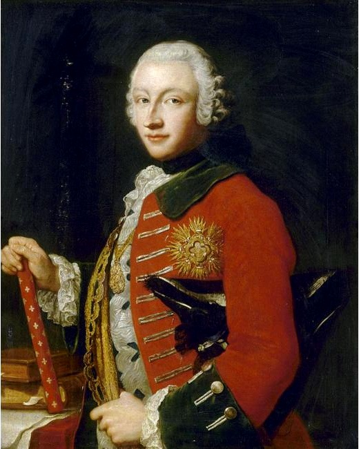 Victor Amadeus III of Sardinia (1726-1796) wearing the badge and star of the Order of the Annunziata